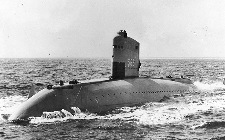 USS Albacore (AGSS-569) underway at sea, 1954. Original shipyard's configuration Phase I